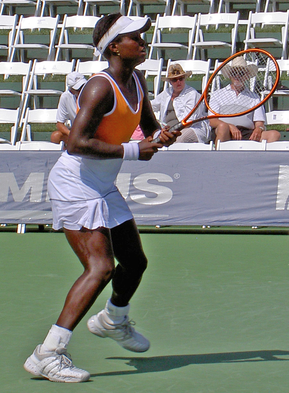 Jamea Jackson at the 2007 Acura Classic.